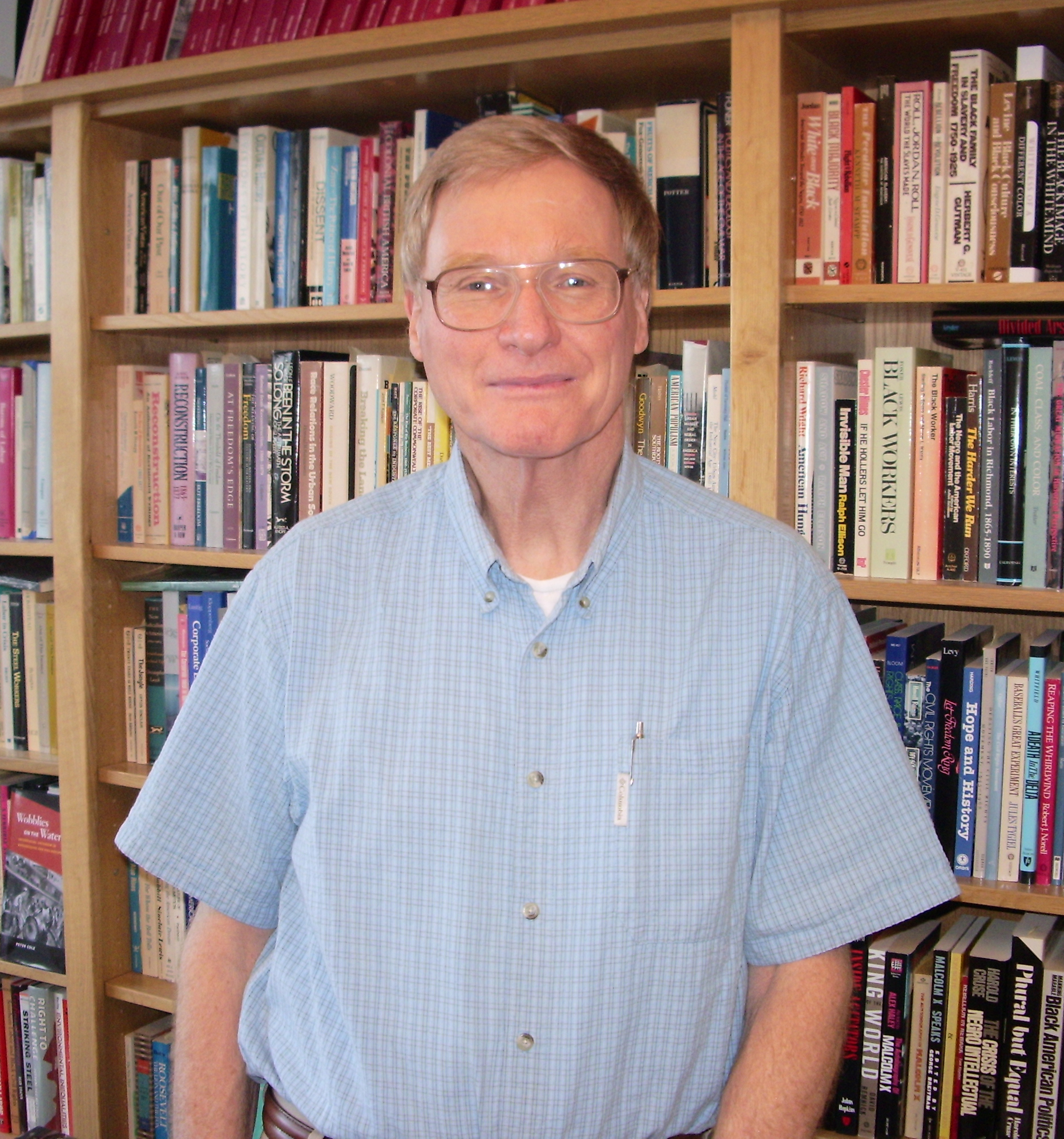 Photograph of Bruce Nelson, currently a professor at Dartmouth College in Hanover, New Hampshire.